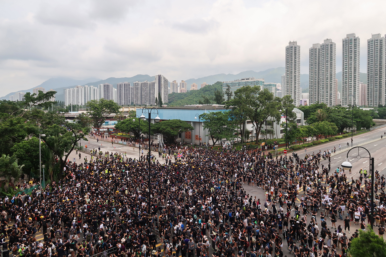 Protesters stay in Yuen Wo Road section